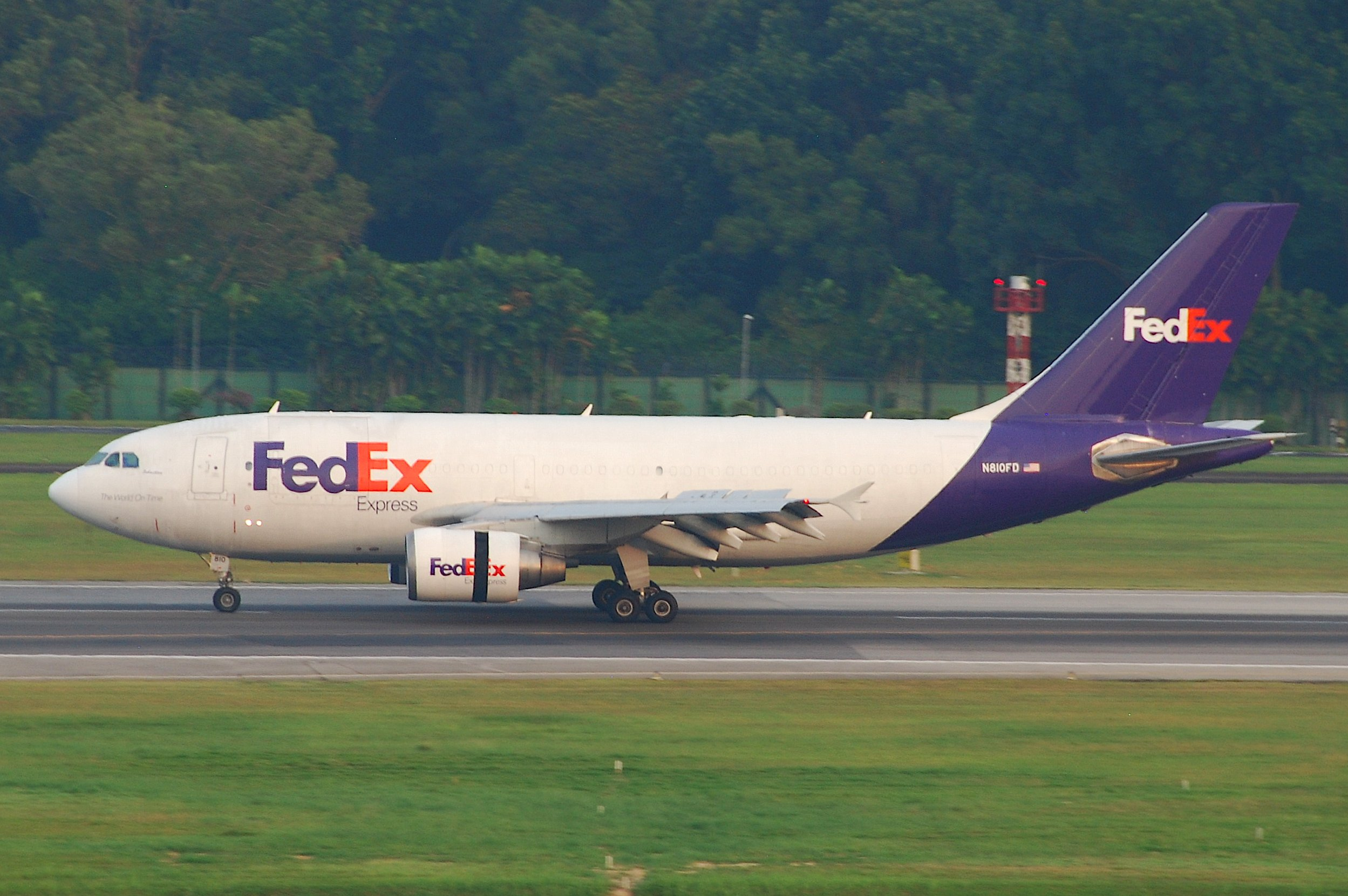 This Airbus A310-324 took its first flight on July 21, 1987... 30/09/1987 Pan Am N816PA 01/11/1991 Delta Air Lines N816PA 13/06/2000 Khalifa Airways F-OHPY stored at Chateauroux 03/2003 12/08/2006 Federal Express N810FD